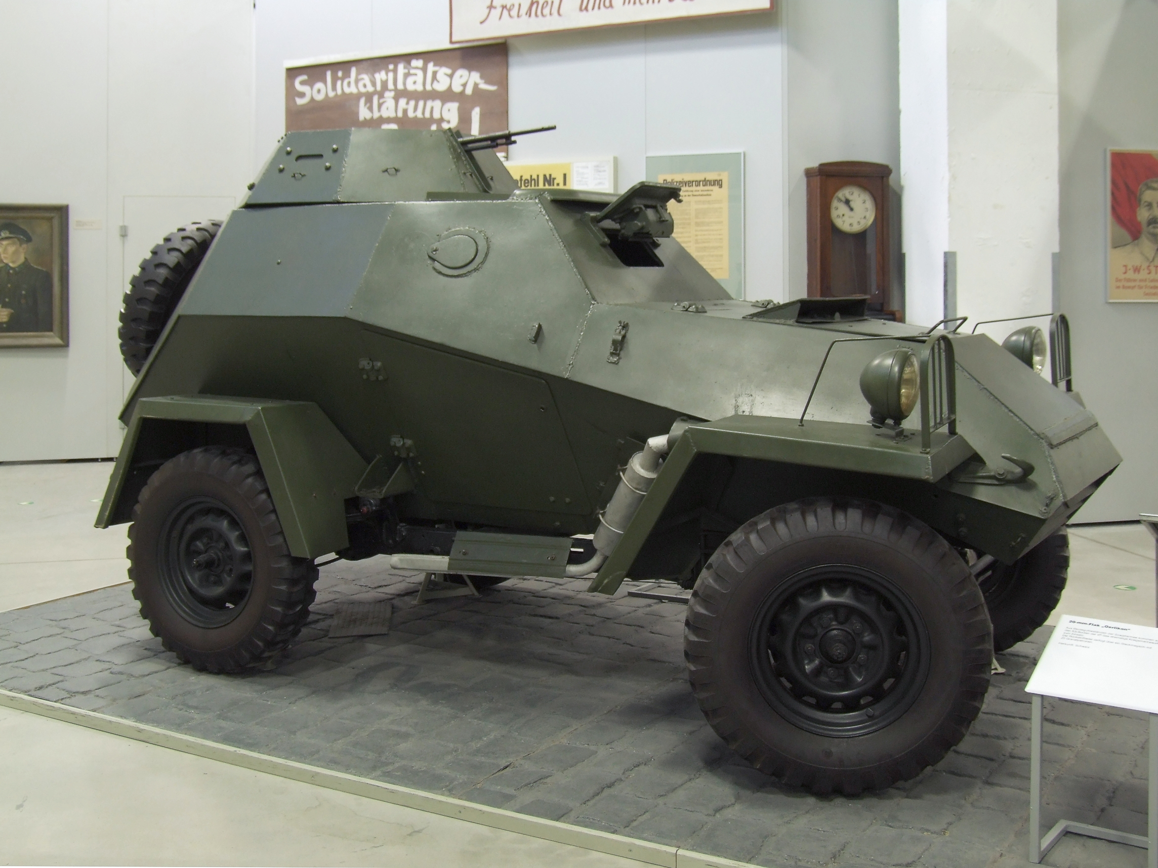 Soviet light armoured car BA-64B in Militärhistorisches Museum der Bundeswehr, Dresden, Germany